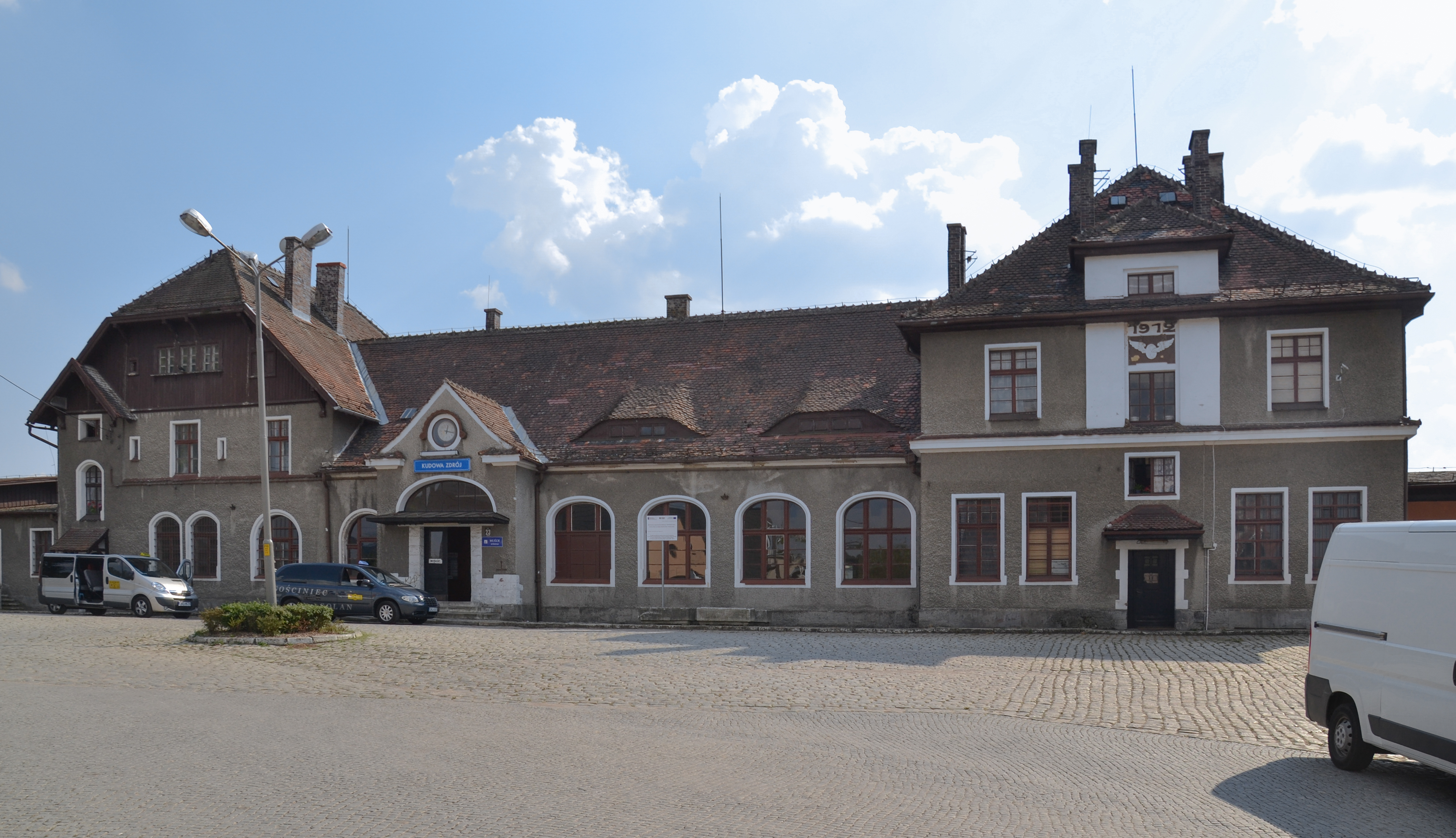 Widok dworca Kudowa Zdrój od strony miasta This photo was taken during Railway Wikiexpedition 2015 set up by Wikimedia Polska Association in cooperation with Fundacja Grupy PKP.You can see all photographs in category Wikiekspedycja kolejowa 2015.